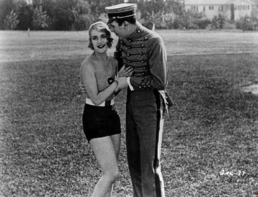 Publicity still for the short film Run, Girl, Run (1928). The stock code in the right-hand corner confirms that this is/was a promotional image, not a screenshot.